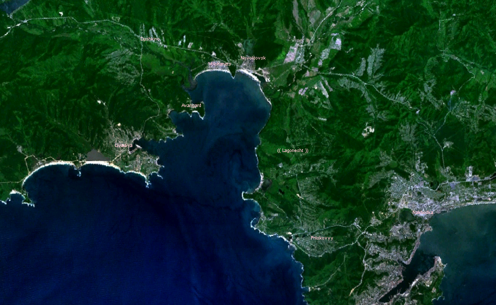 Vostok Bay from Space.